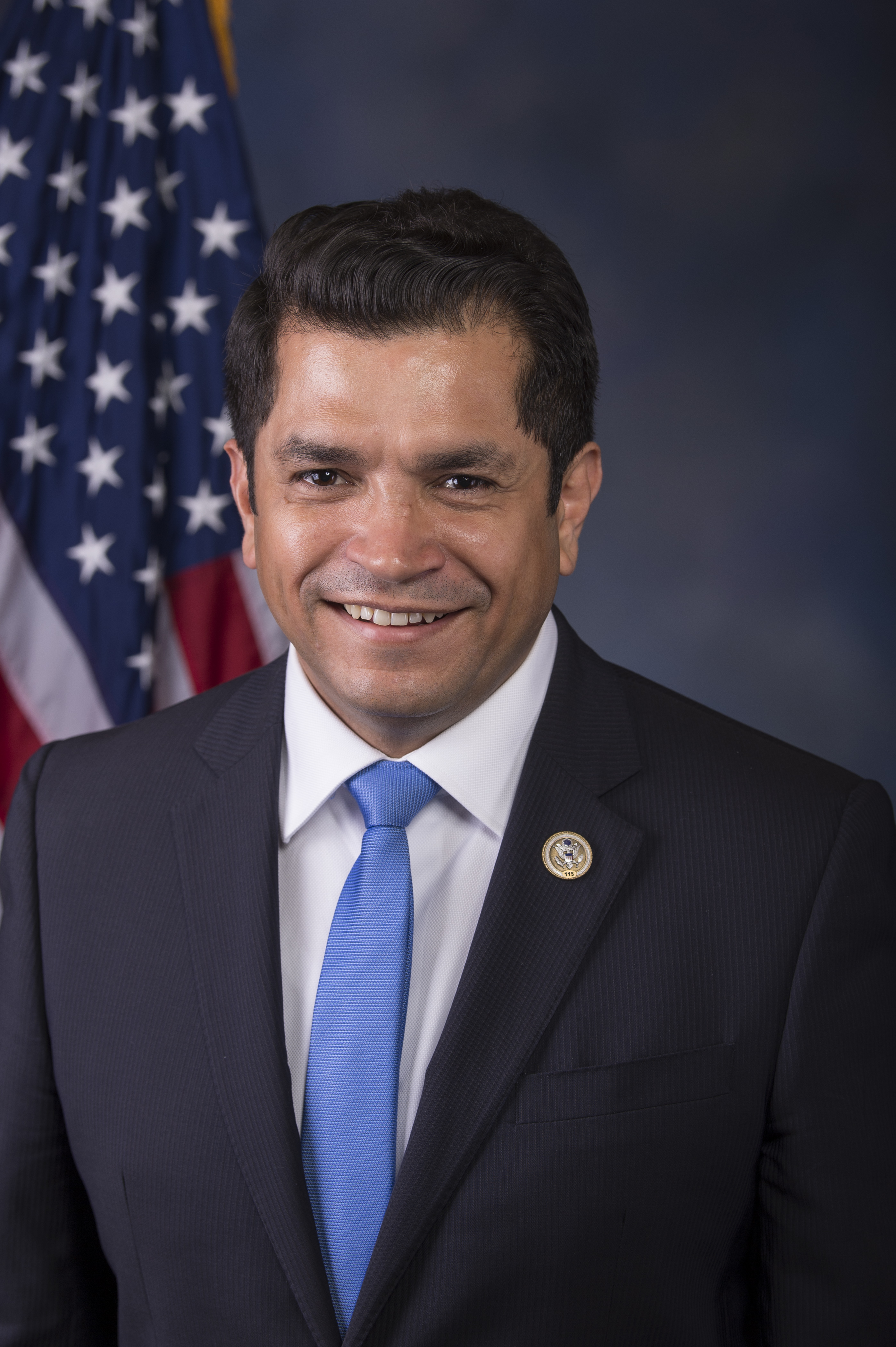 Jimmy Gomez official freshman Congressional portrait